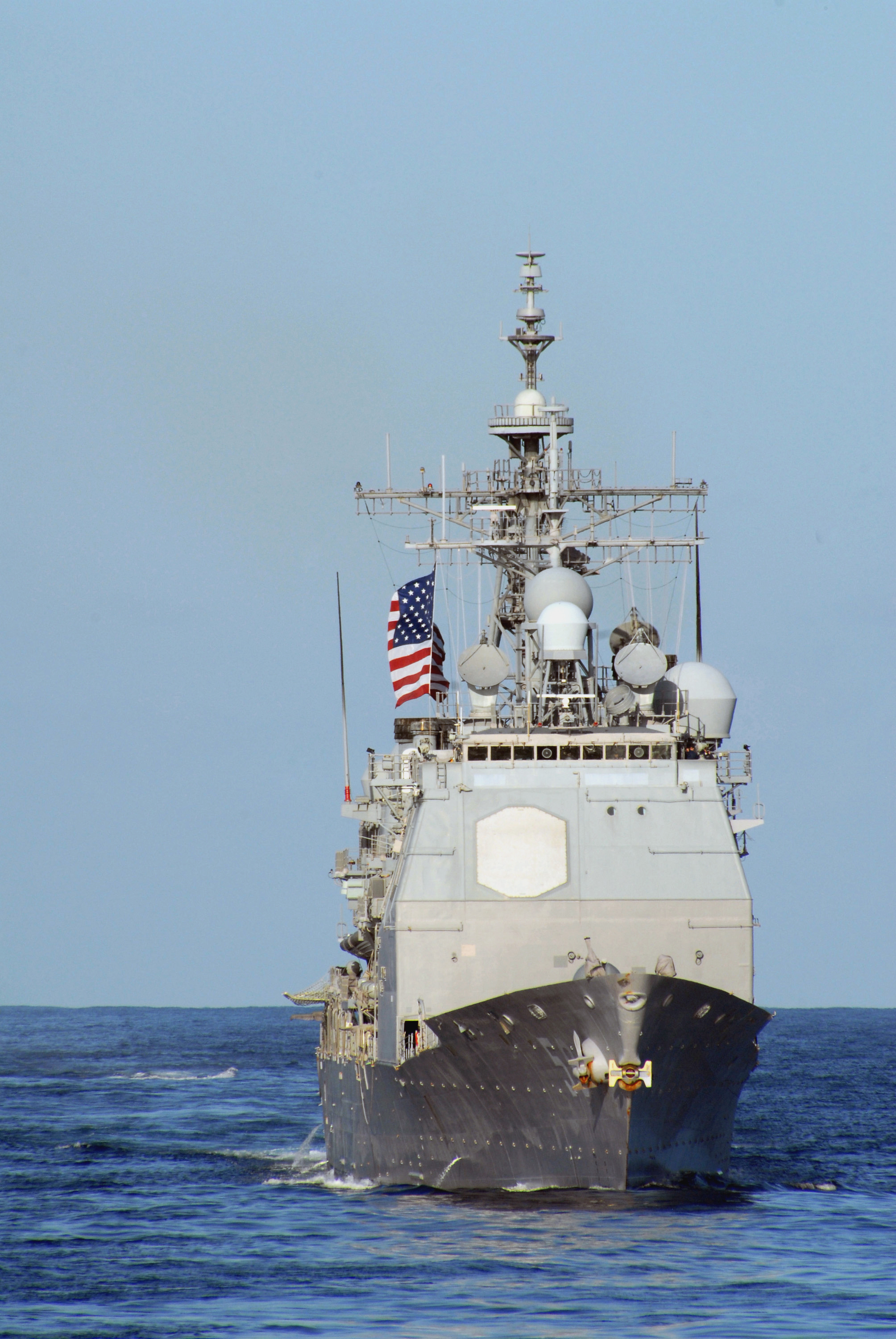 080316-N-3038W-101 EAST CHINA SEA (March 16, 2008) The guided-missile cruiser USS Princeton (CG 59) steams behind the nuclear-powered aircraft carrier USS Nimitz (CVN 68) during an Expeditionary Strike Force (ESF) exercise. The Nimitz Carrier Strike Group (CSG) is participating in an ESF exercise with the Essex Expeditionary Strike Group (ESG). U.S. Navy photo by Mass Communication Specialist Seaman John Wagner (Released)